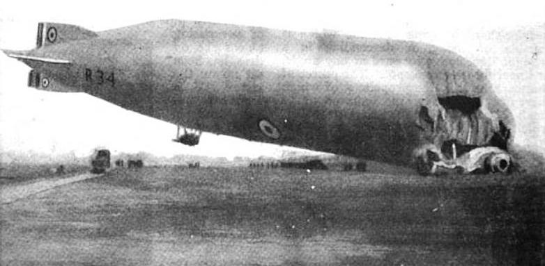 Photograph of British airship R-34 after she was wrecked by high winds.